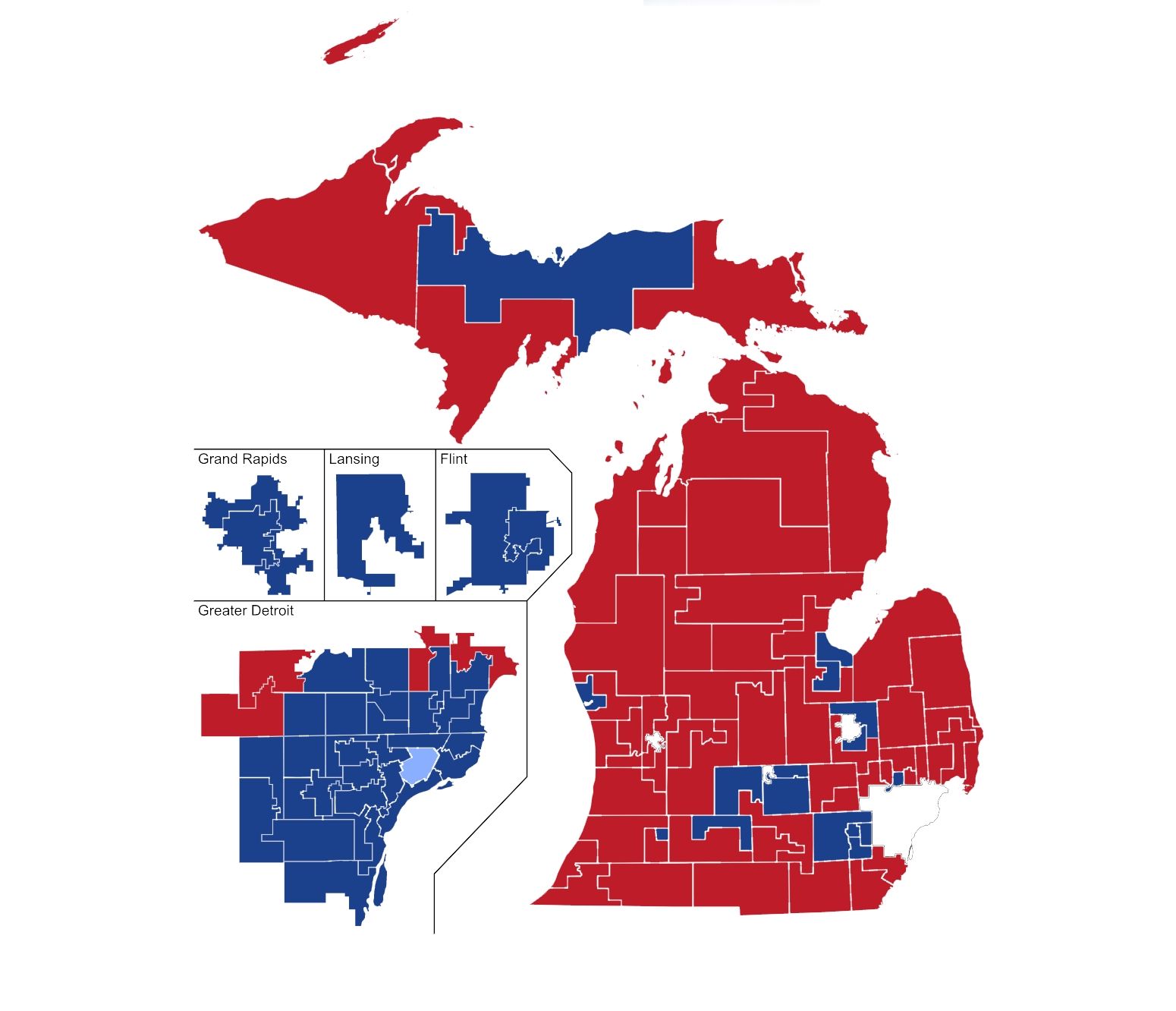 Map of current Michigan House of Representatives membership by party control (as of April 19th, 2020)